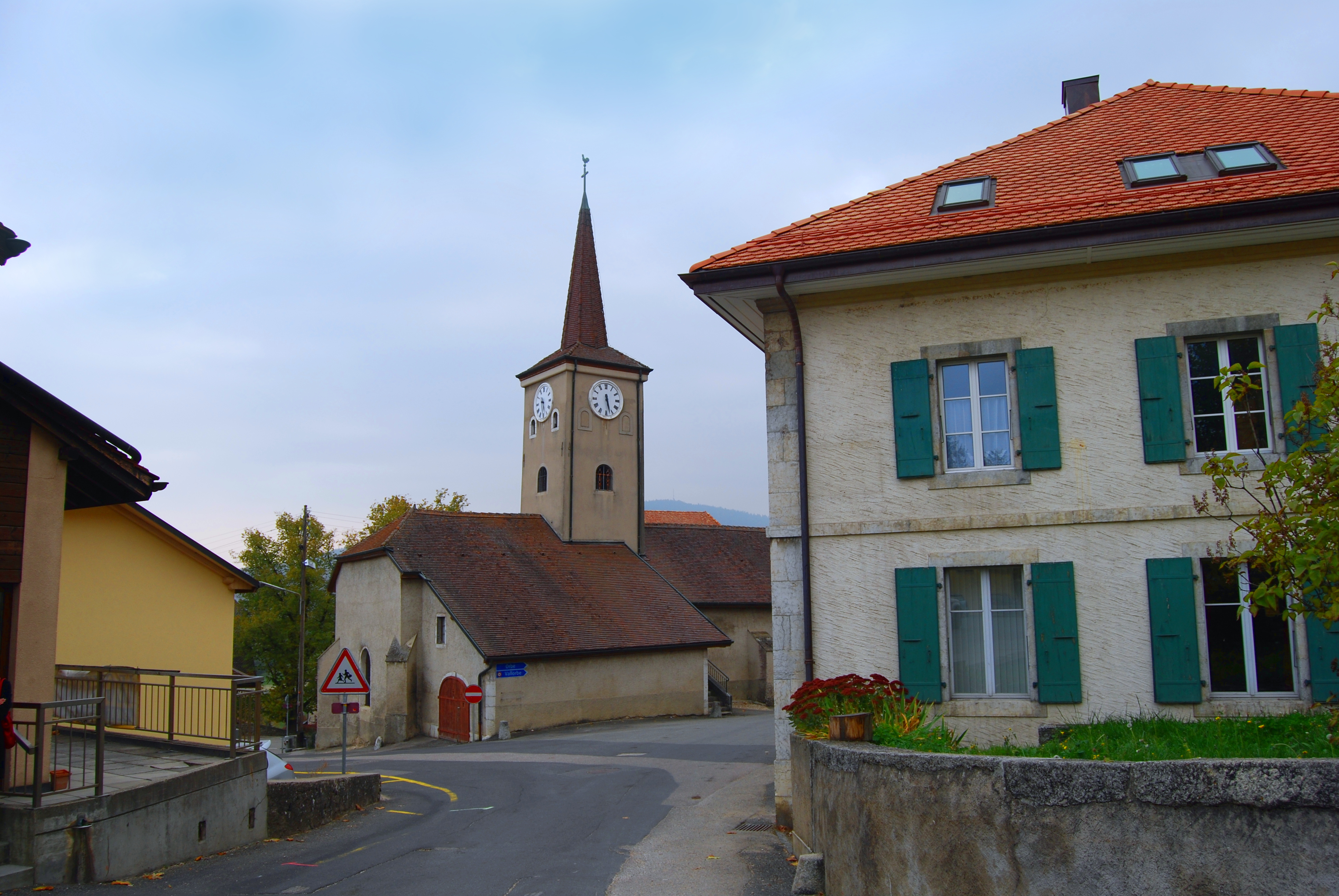 Church of Lignerolle, canton of Vaud, Switzerland